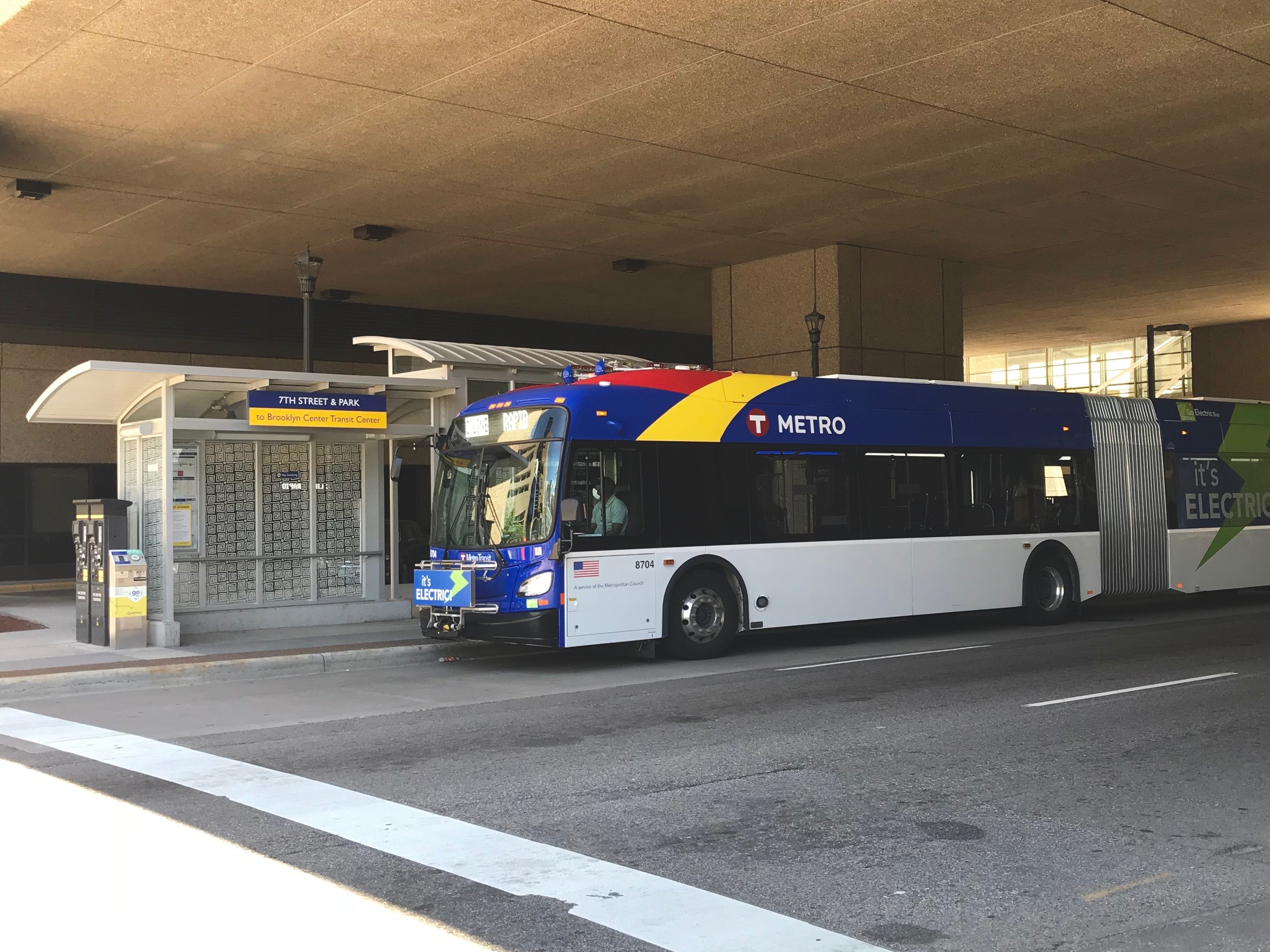 An articulated battery-electric New Flyer bus on the METRO C Line is stopping at 7th Street & Park Station in Downtown Minneapolis. This station is the beginning of the C Line heading northbound to Brooklyn Center, Minnesota.